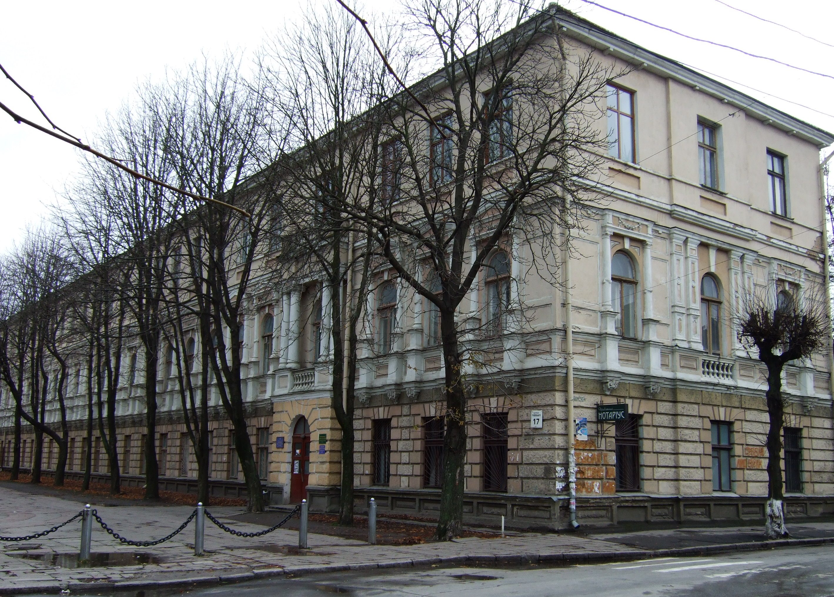 Vinnytsya, Hrushevskoho street 17. This house was built in 1910-1920 by architects H.H. Artynov and V.A. Prusakov. According to the project the Circuit Court was an addition of the house of the Town Council. In the sixties of 20 cen. the second floor was added.